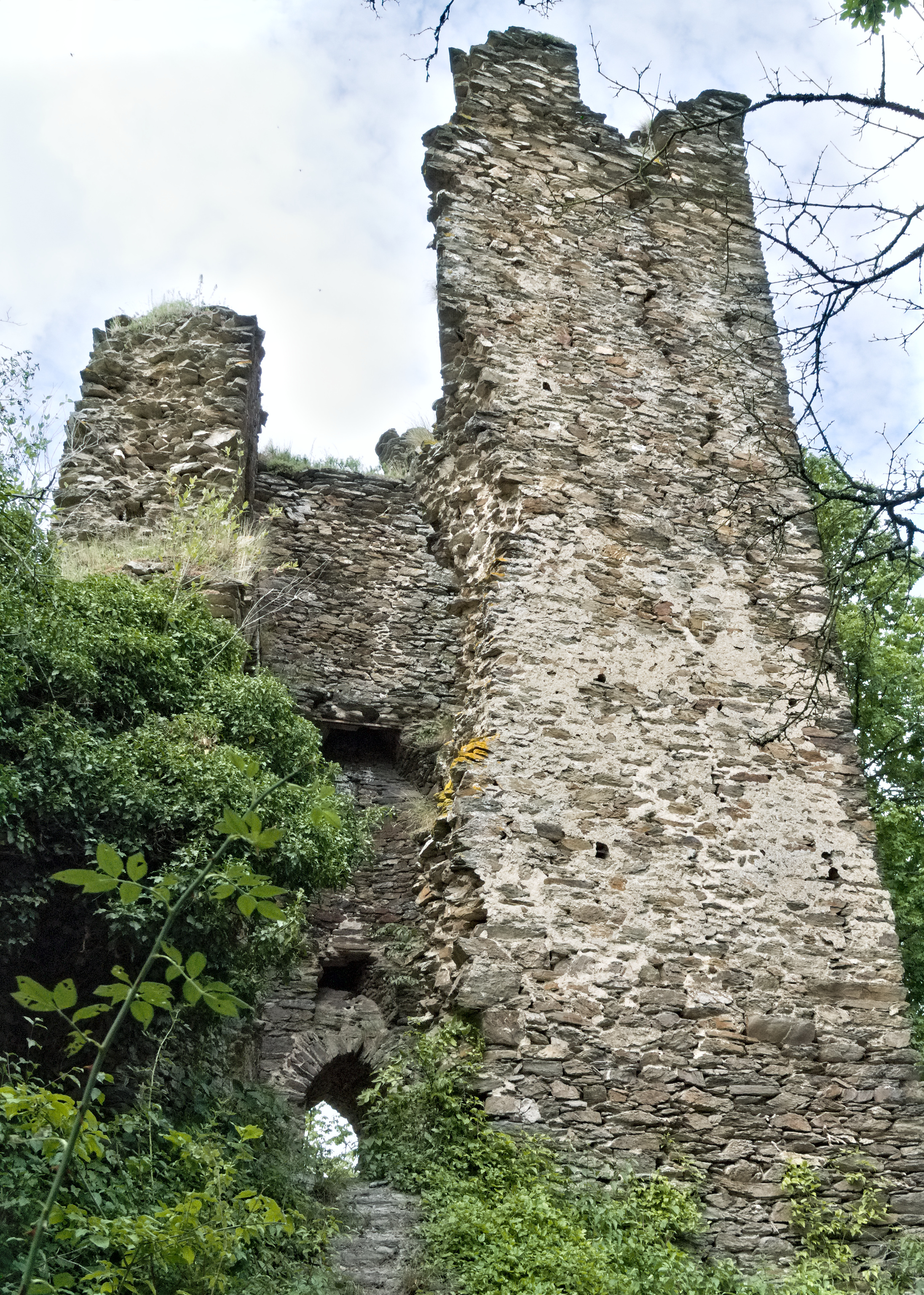 The keep of Rheinberg castle near Lorch, Germany. View from south-western direction.